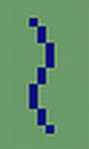 This is a detail excerpted from existing WP file Test_nn.gif (public domain). To be be used in WP article In re Alappat Other information cropped detail